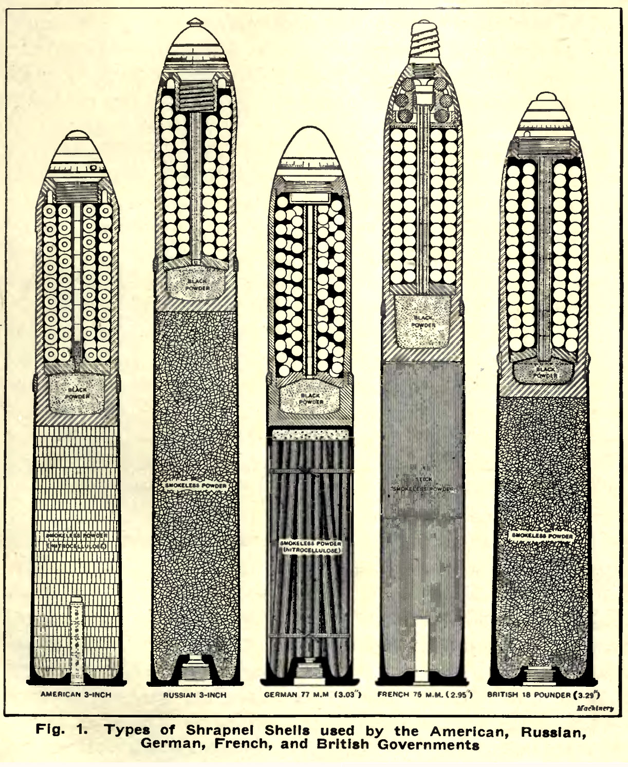 shrapnel shell, first world war. (Lead and mercury of those shells were an important source of pollution during this war and after.